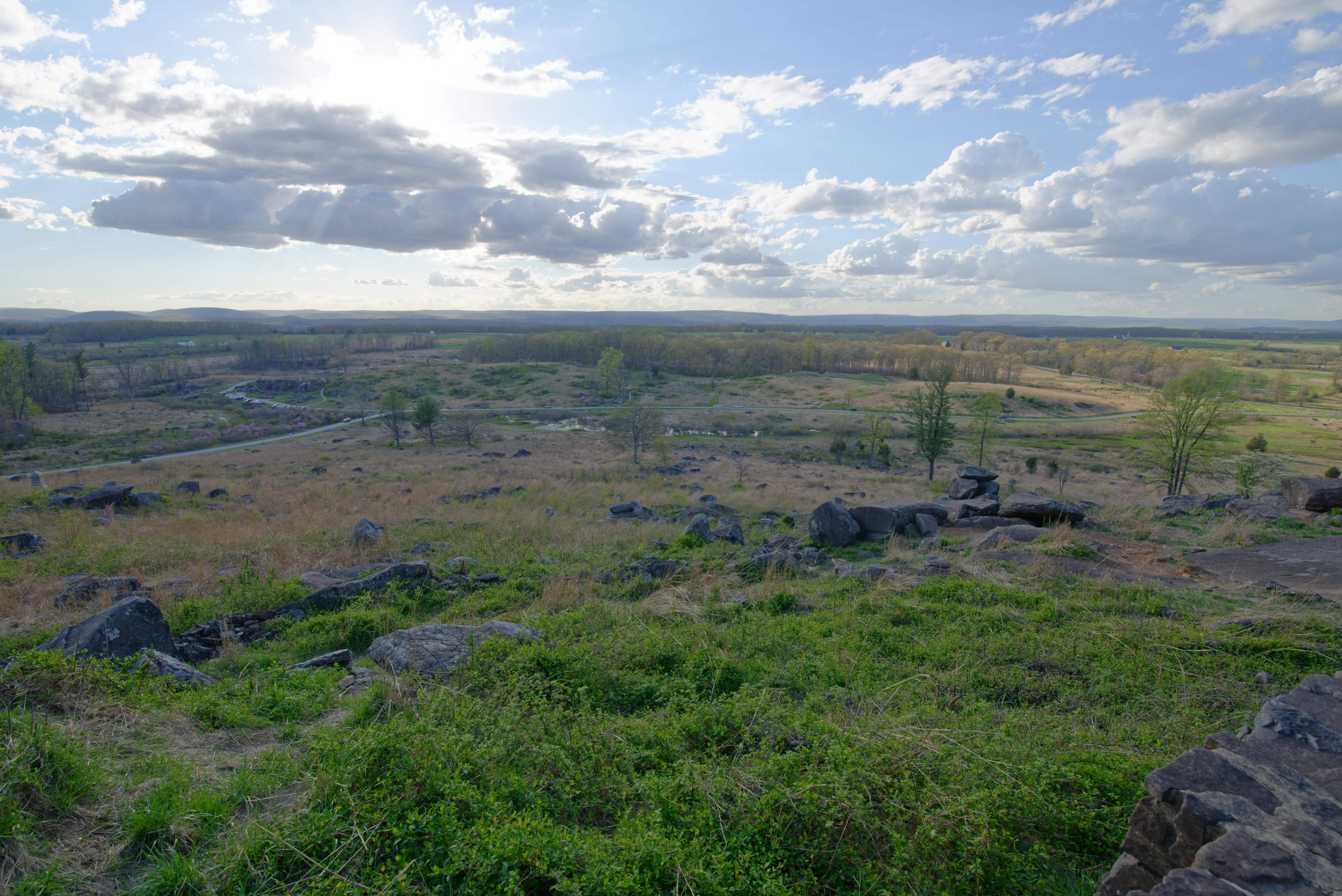 View of Devil's Den from Little Round Top, Gettysburg Battlefield, Pennsylvania, US